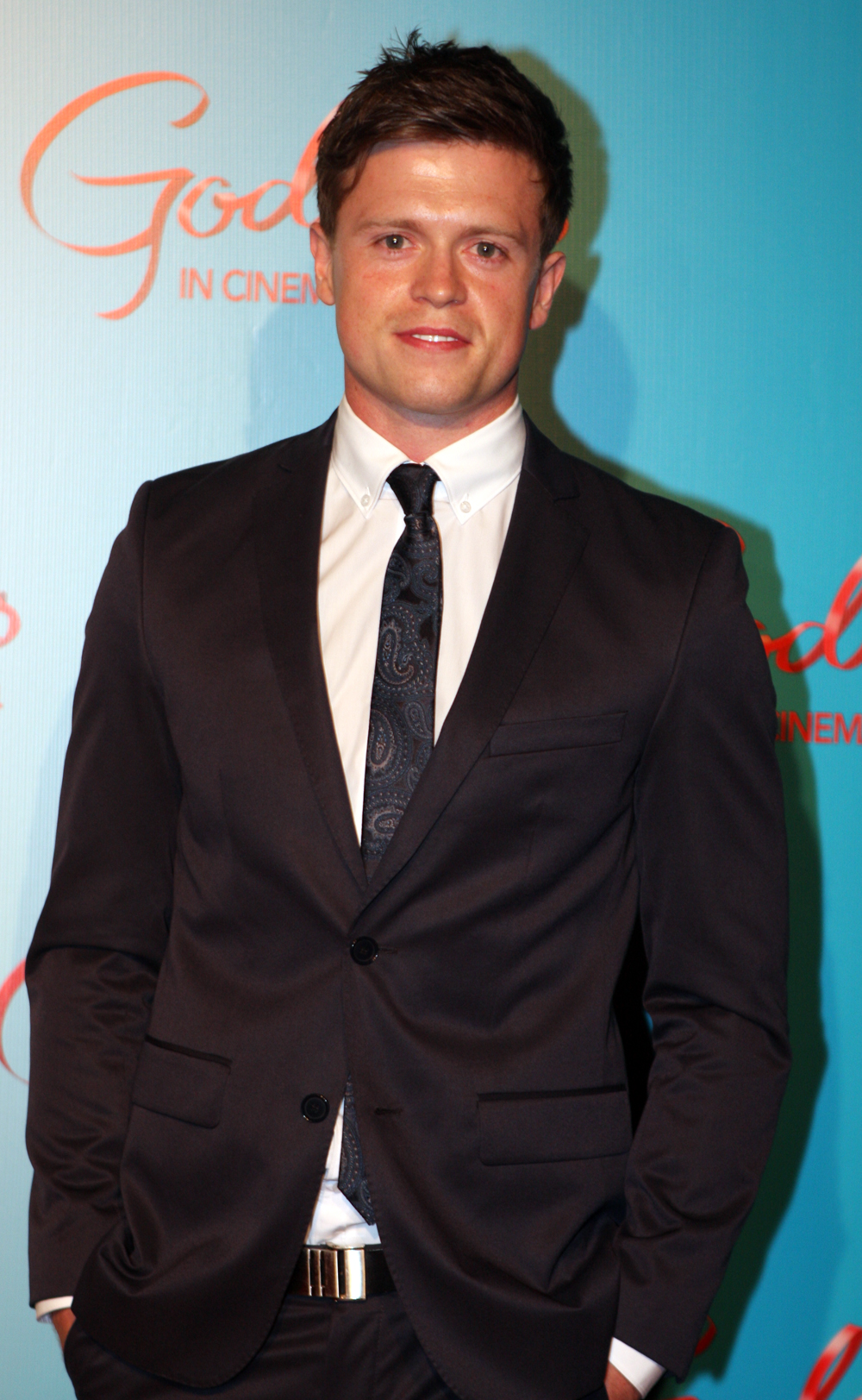 Hugo Johnstone-Burt at the world premiere of Goddess in Sydney, Australia.